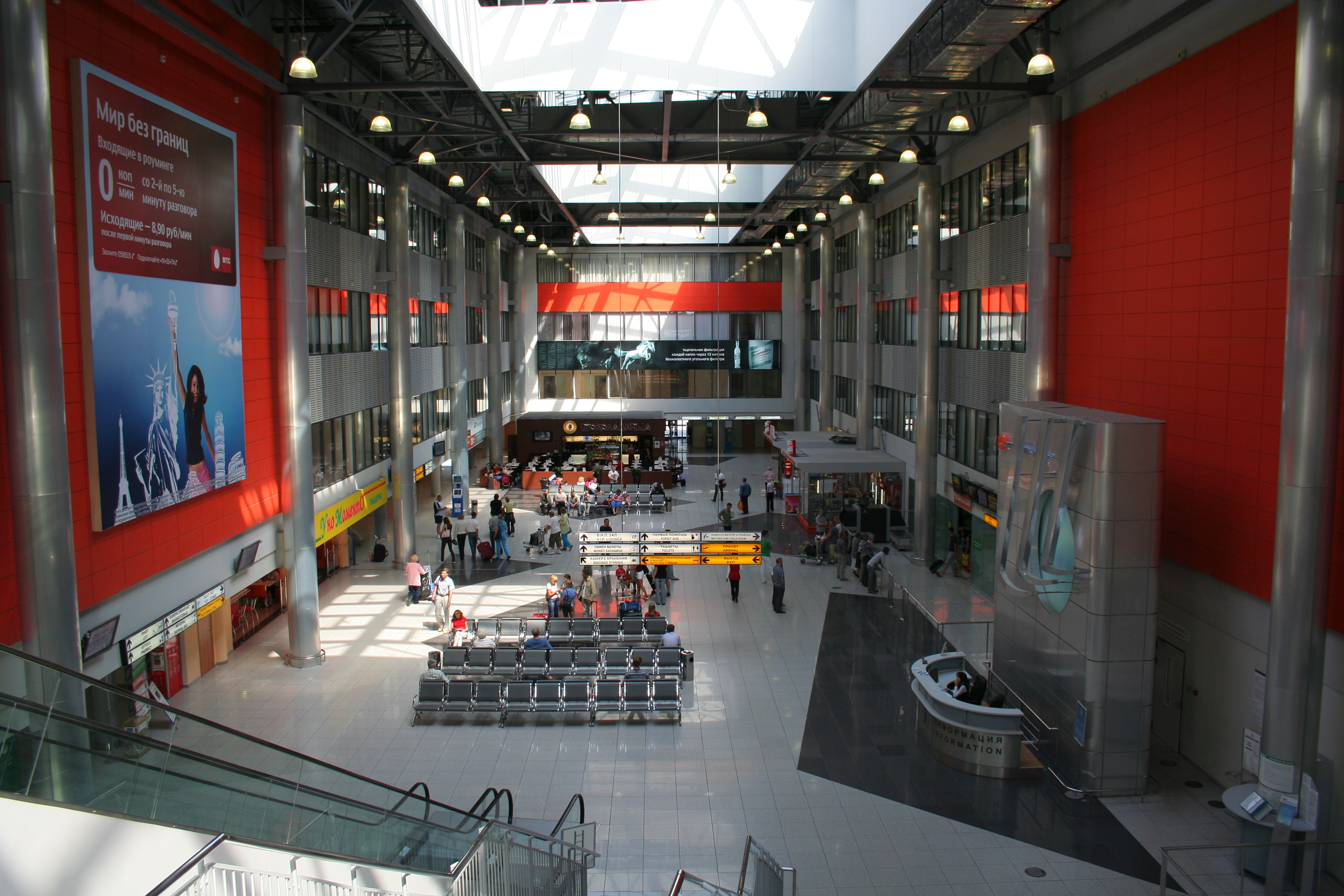 Sheremetyevo Airport of Moscow. Terminal C. View inside.